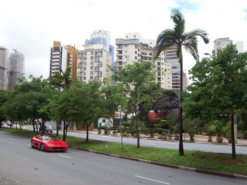 Vila Nova Conceição in São Paulo City.